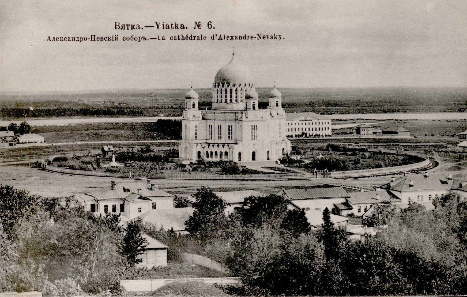 St. Alexander Nevsky Cathedral in Vyatka (today Kirov)